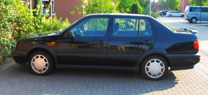 Black VW Vento GT with 85 kW/115 HP (same like VW Golf III GTI).